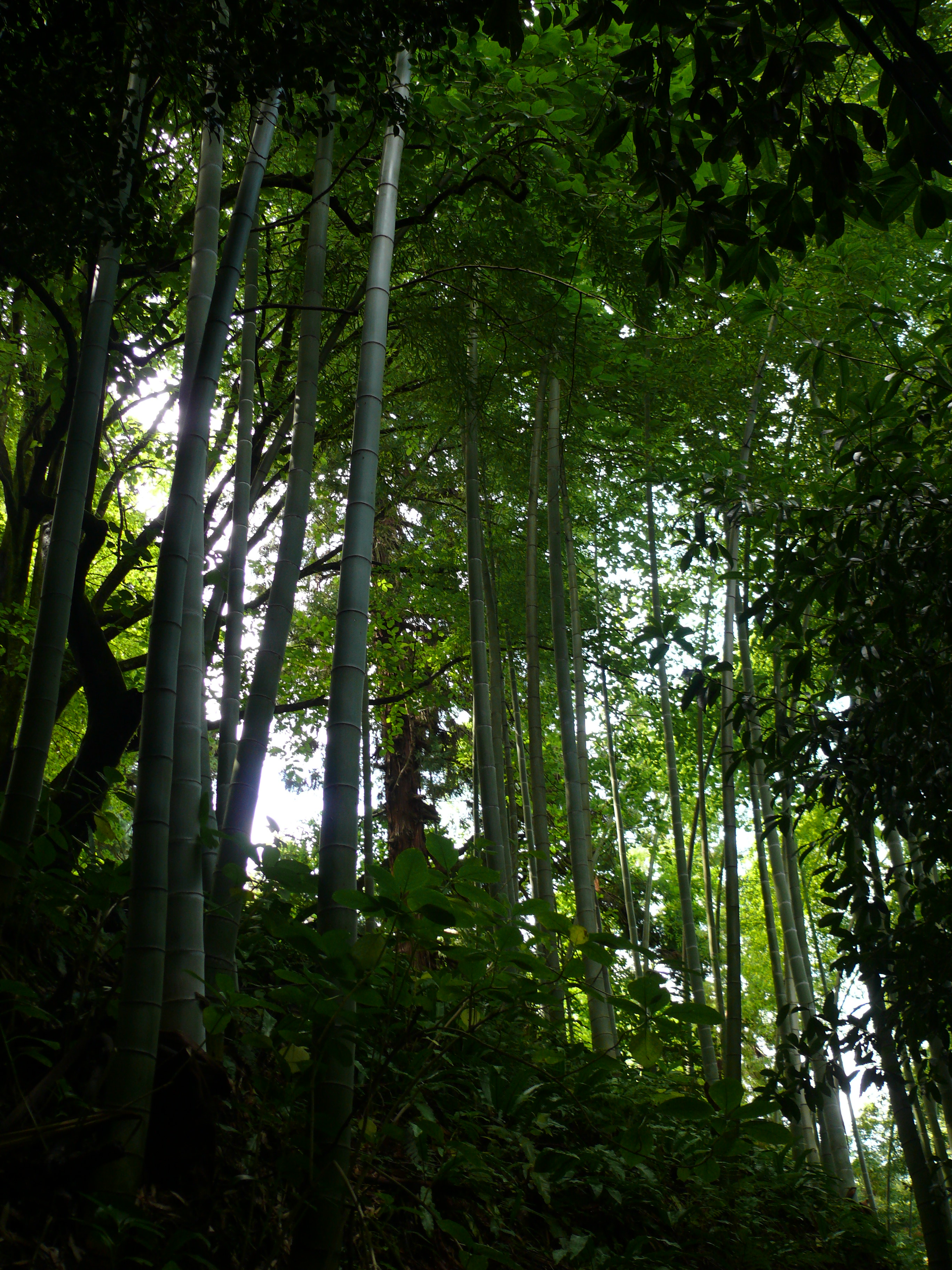 Phyllostachys Pubescens in Batumi botanical garden